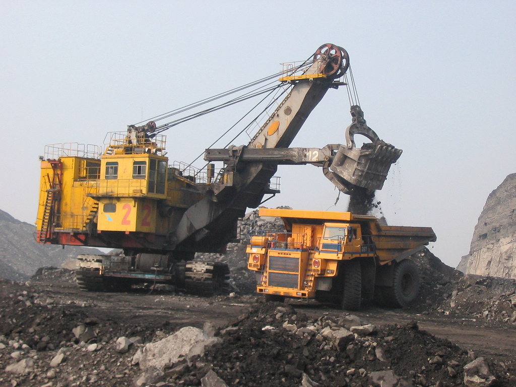 Mining in Russia near Mezhdurechensk, Kemerovo Oblast.